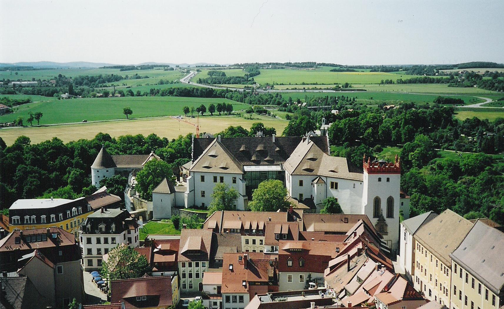 East side of Ortenburg castle in Bautzen in Saxony, Germany, seen from the top of St. Peter's Church.